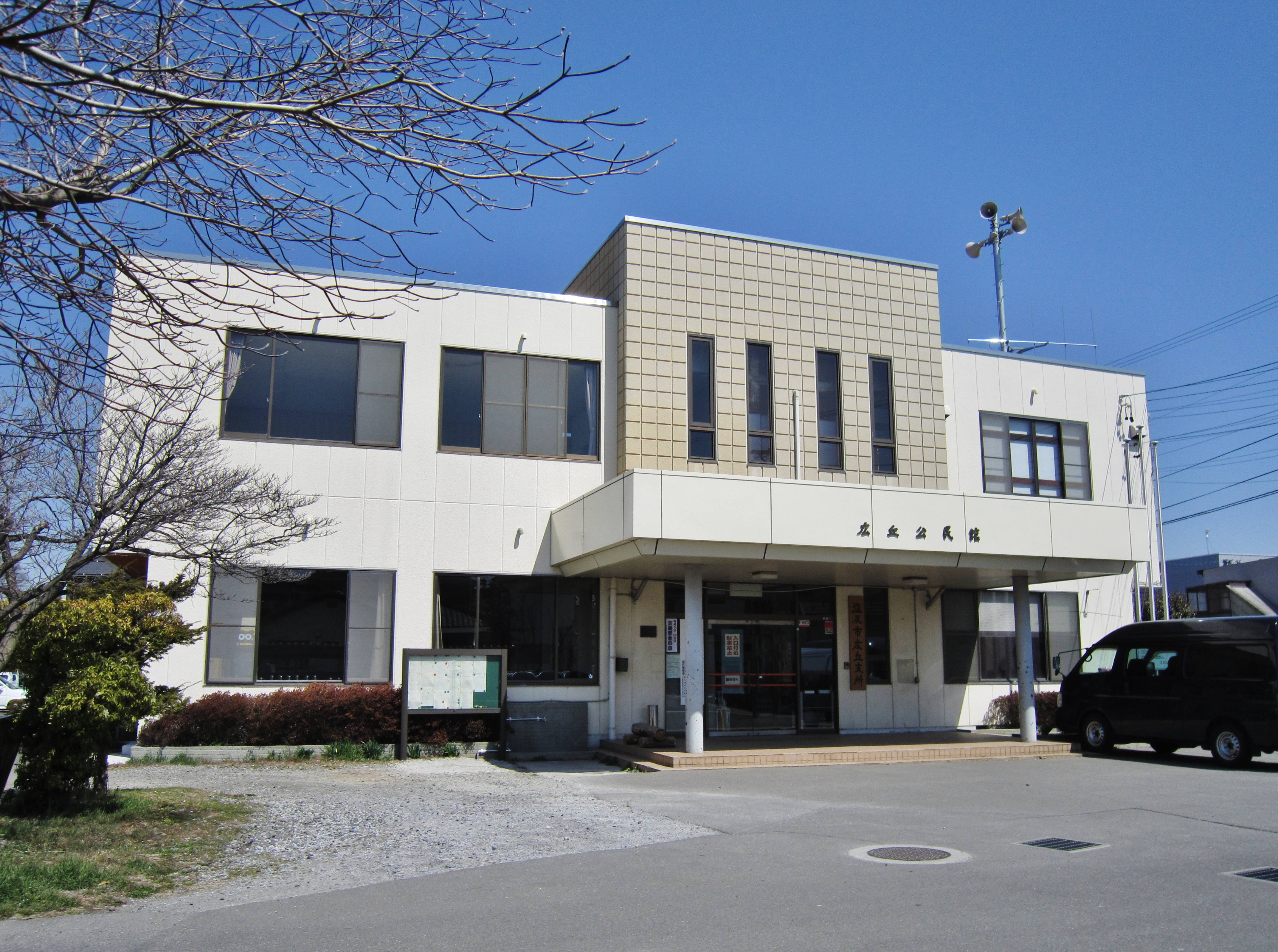 Shiojiri city Hirooka branch office (Hirooka kominkan).